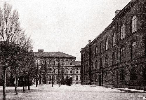 Royal Caroline Institute Karolinska Institutet buildings in 1906 Place: Kungsholmen, Stockholm, Sweden